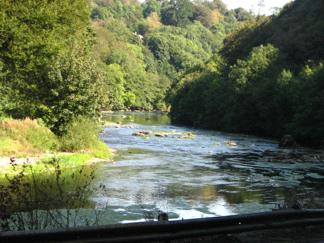 Bandon River view